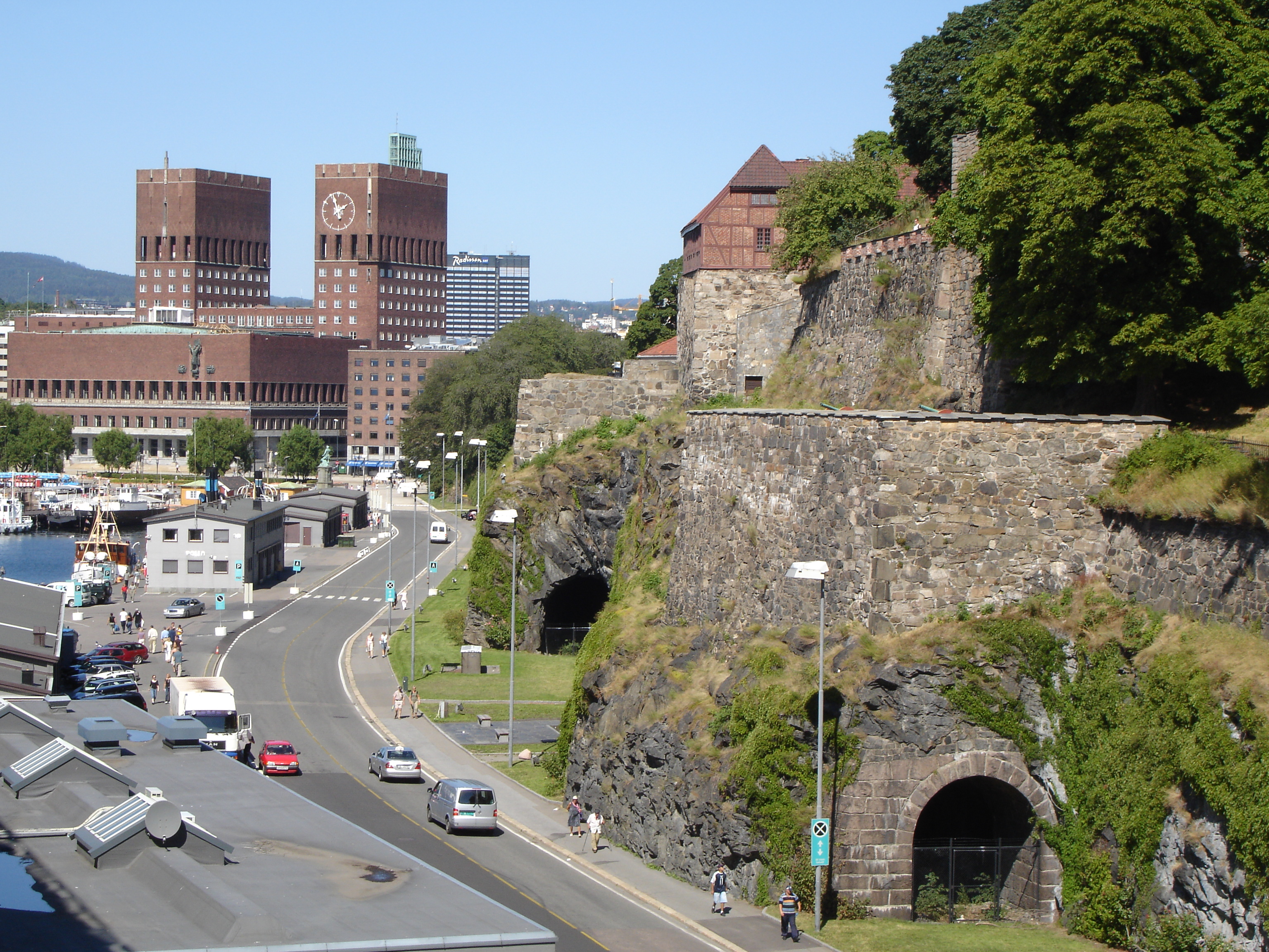 Oslo with the City Hall on the left and a part of Akershus Fortress on the right. Also visible are the remains of two short railway tunnels on the abandoned Oslo Port Line. Original description: Built around 1300, this medieval fortress and castle was built by King Hakon V. It is currently used during the summer for concerts, dances and theatrical productions. The Akershus Castle dates back to the 17th century, and was renovated into a Renaissance palace by Christian IV. Royal events are still conducted in the chapel and the tombs of King Hakon VII and Olav V are located beneath it. See set comments for %u201COslo Norway Overview%u201D.